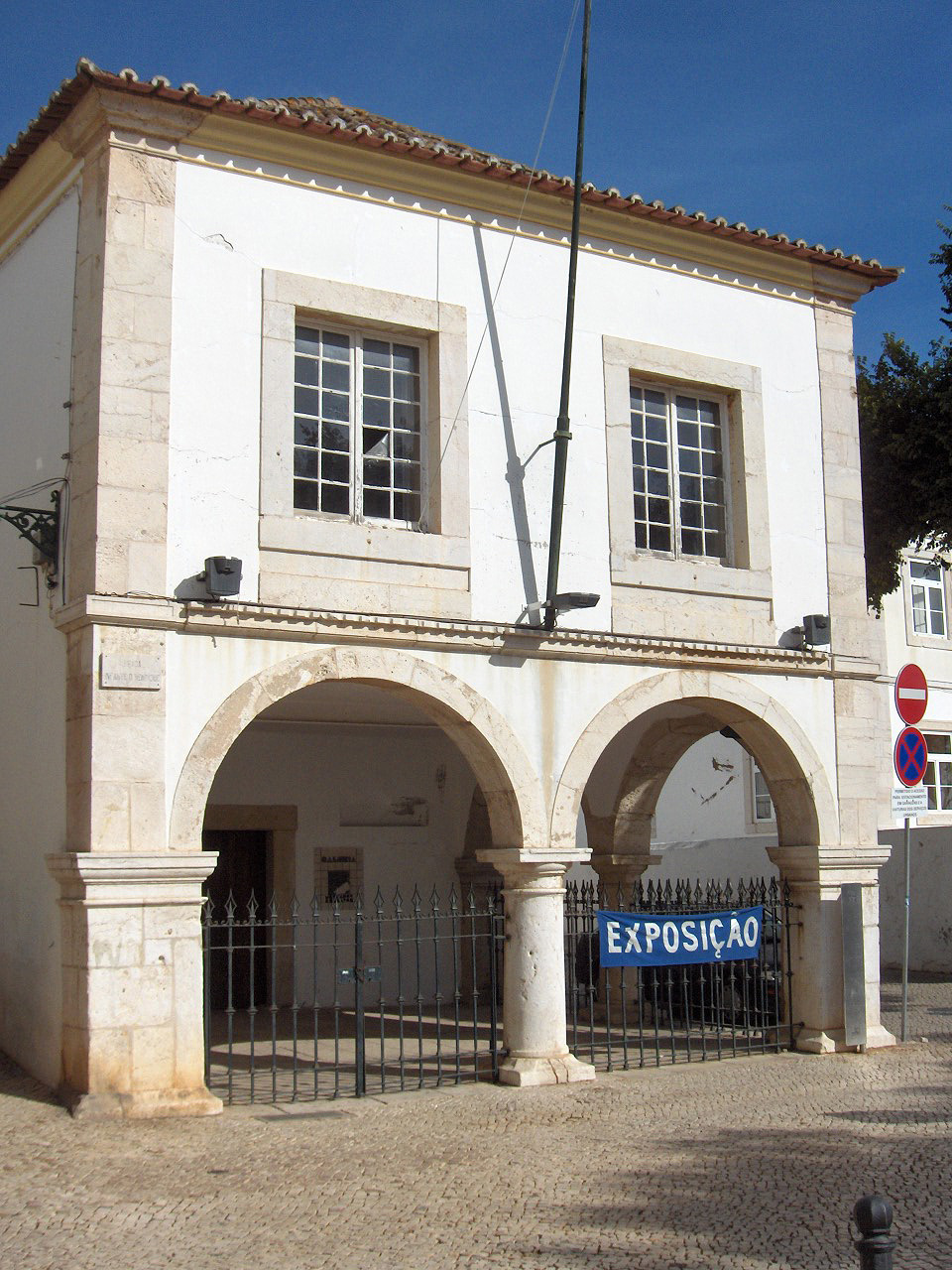 Site of the former Mercado dos Escravos, the first slave market of Europe (rebuilt after 1755); Lagos, Portugal